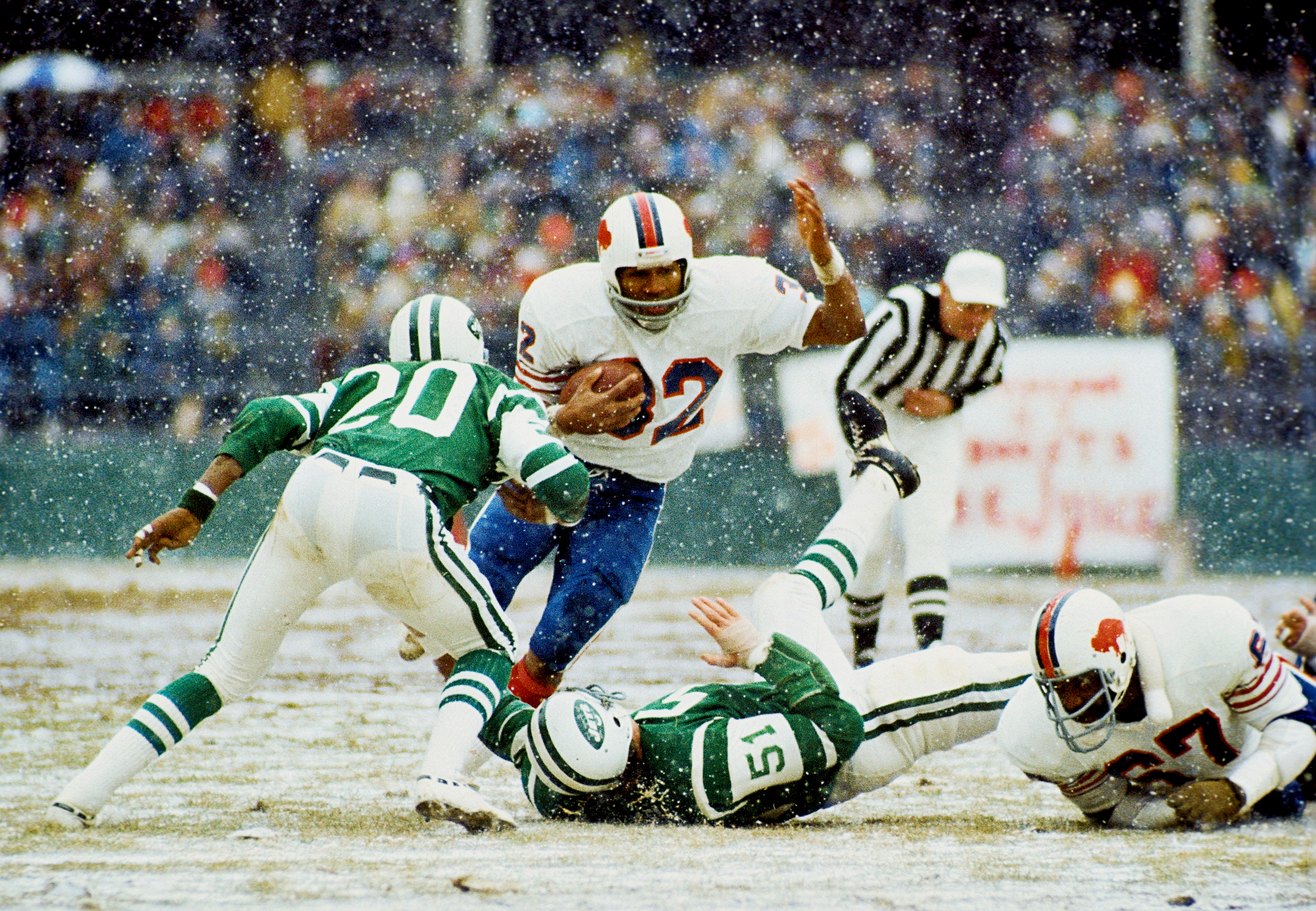 A football card from the 1986 Jeno's Pizza NFL football card stickers set of Buffalo Bills running back O.J. Simpson rushing the ball against the New York Jets on December 16, 1973, breaking the NFL's single-season rushing record. The card is numbered #29 in the set. The back of the card reads: O.J. SIMPSON: THE 2,000 YARD MAN Dashing through the snow, Buffalo's O.J. Simpson is on his way to a 200-yard game against the New York Jets in December, 1973. His big performance, on the last day of the regular season, sent him past Jim Brown's one-year NFL rushing record of 1,863 yards. When the cold afternoon was over, O.J. had soared to a new record of 2,003 yards.